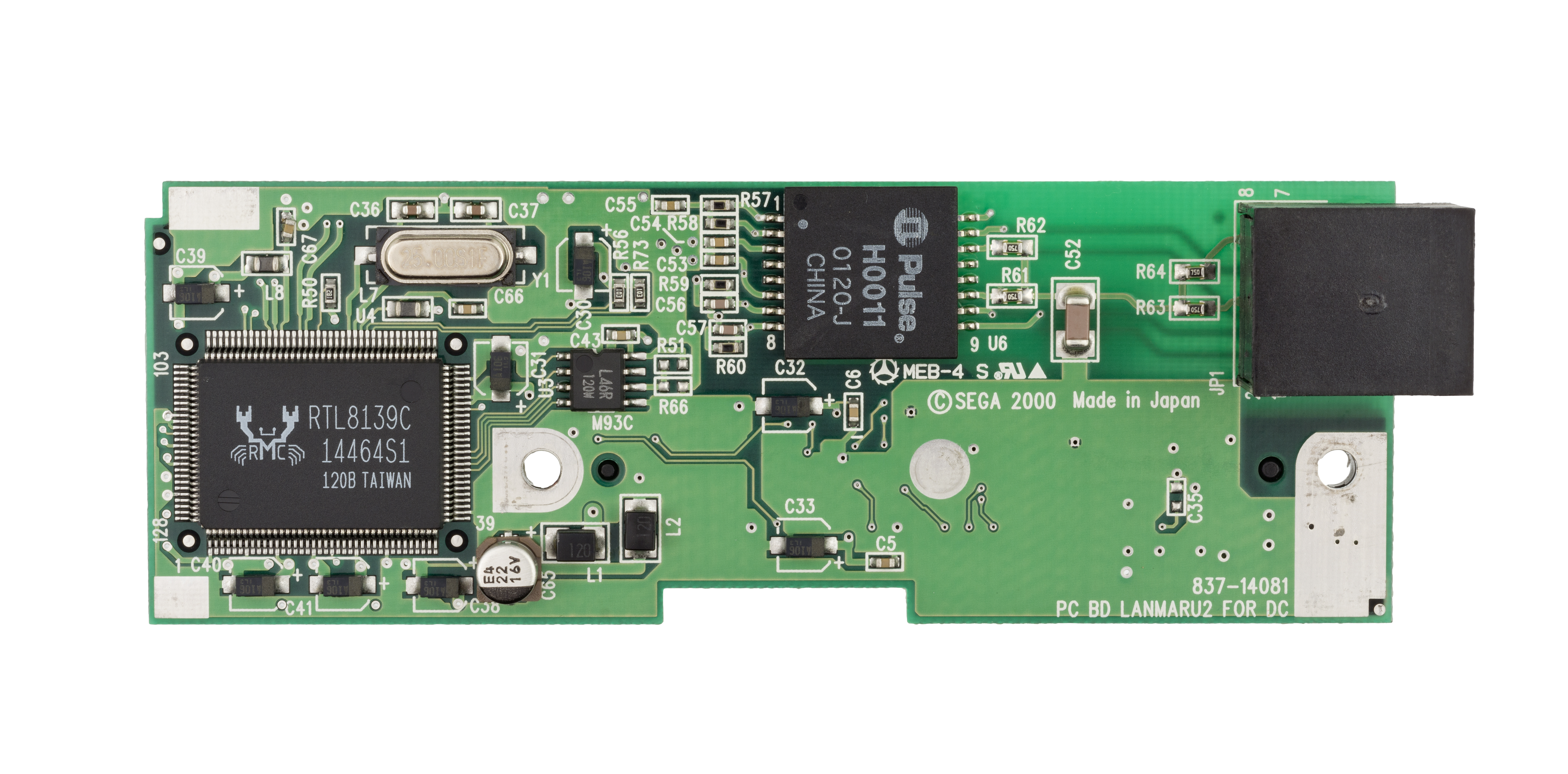 The motherboard for the HIT-401 broadband adapter for the Sega Dreamcast. Used for browsing the web and playing against others online, this adapter was released late in the life of the Dreamcast and offers much higher bandwidth than the dial-up modem.